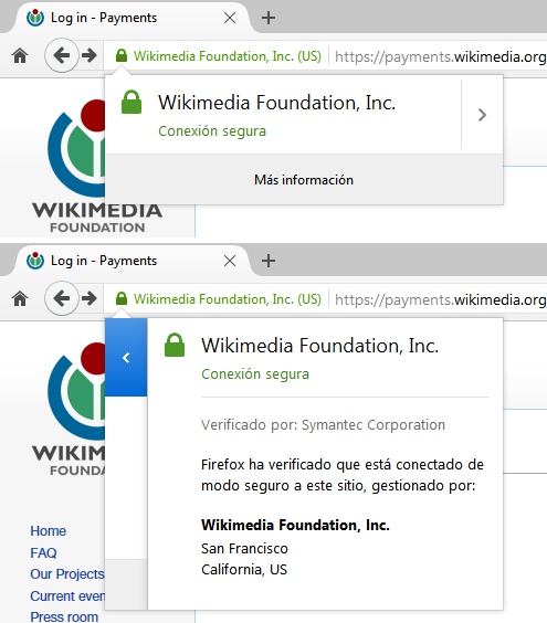 Visit Wikimedia donation page with extended validation certificate in Firefox.